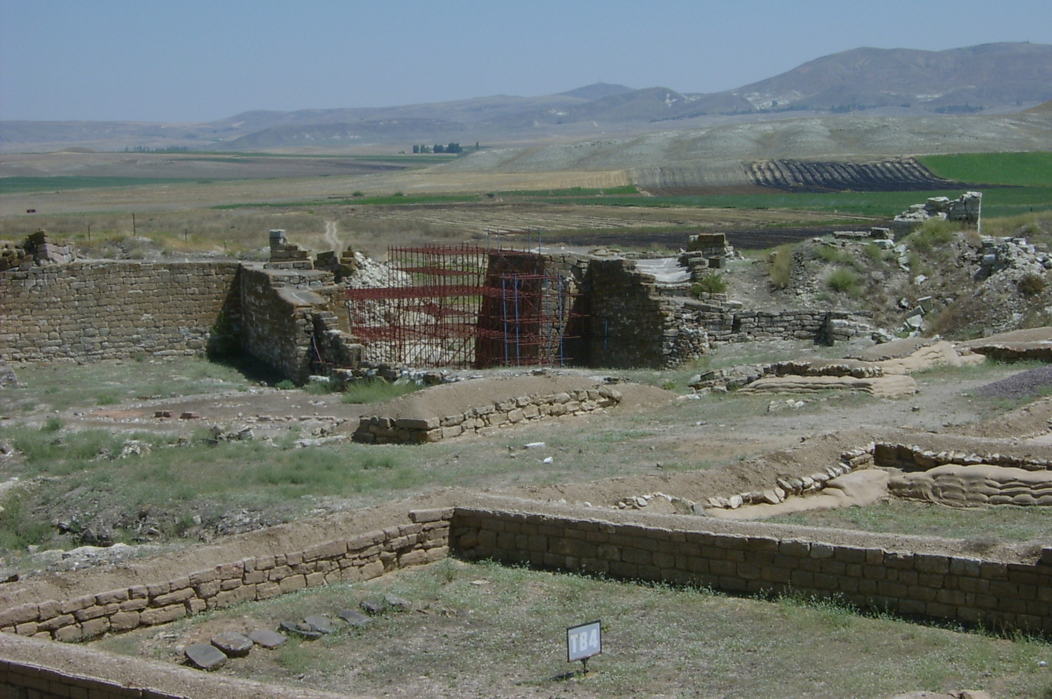 Ruins of Gordion, capital of ancient Phrygia